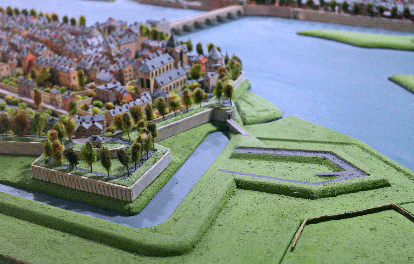 Detail of the copy of the French Maquette of Maastricht on display in Centre Céramique, Maastricht, the Netherlands. The copy was made in 1974-1982, based on the mid-18th-century scale model made for King Louis XV of France. This section shows the northeastern city wall near the river Meuse in Wyck around the former St-Maartenspoort (Saint Martin's Gate) with Saint Martin's bastion and Saint Antony's lunette. Within the city wall the parish church of Saint Martin's and the Wyck gunpowder tower.